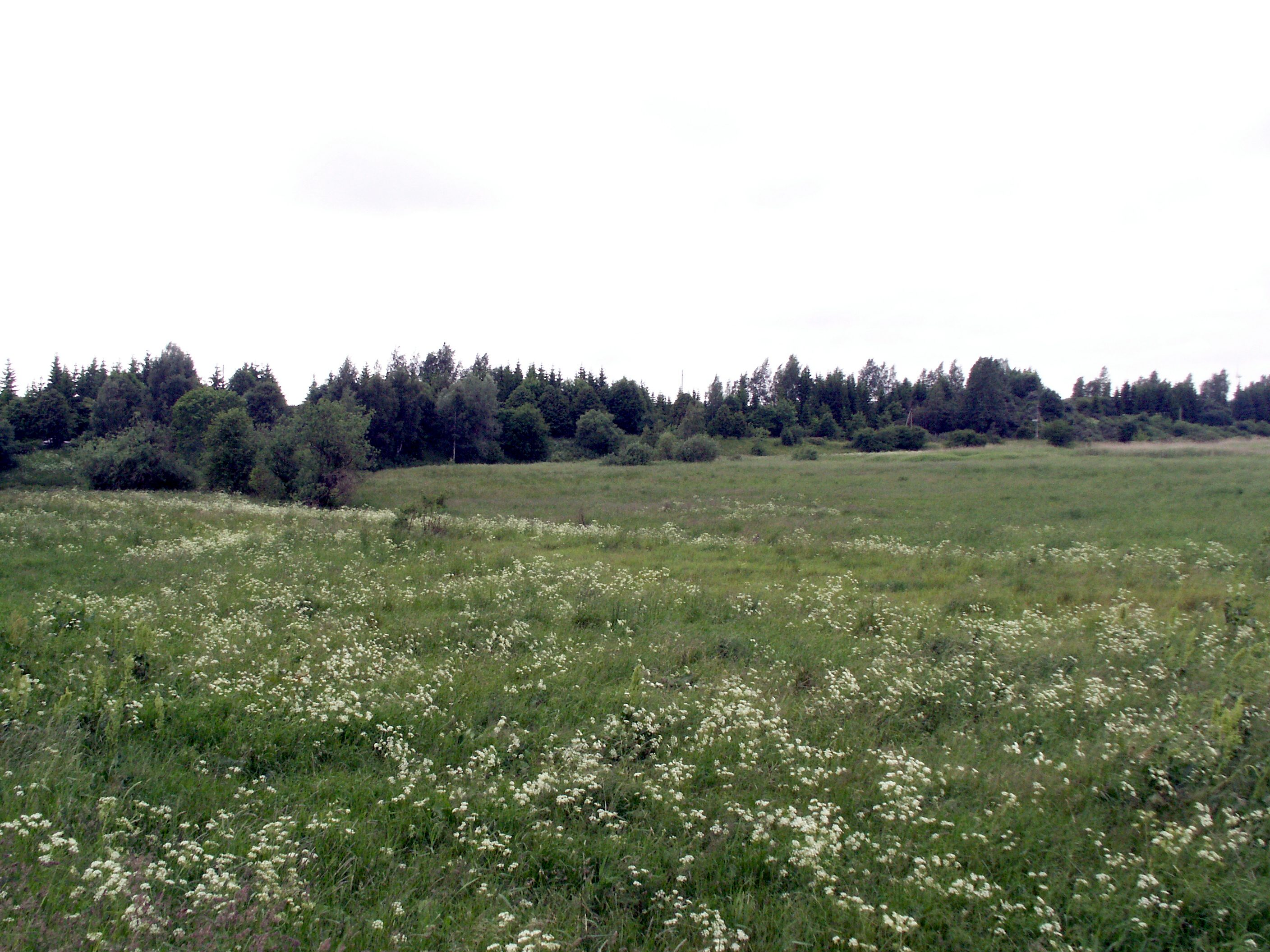 Old settlement Pryšmančiai, Kretinga district, Lithuania